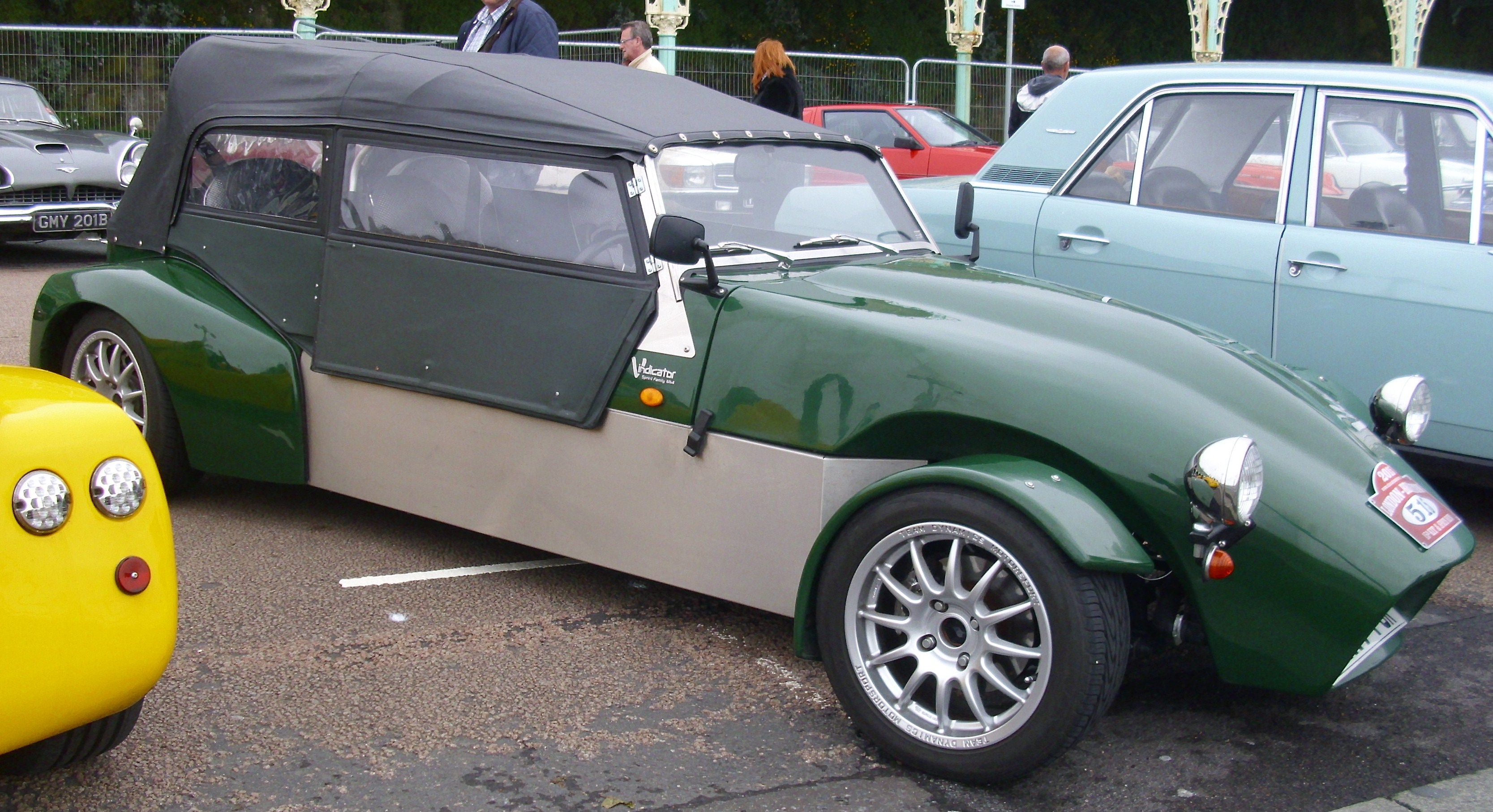 Tornado Family 2009